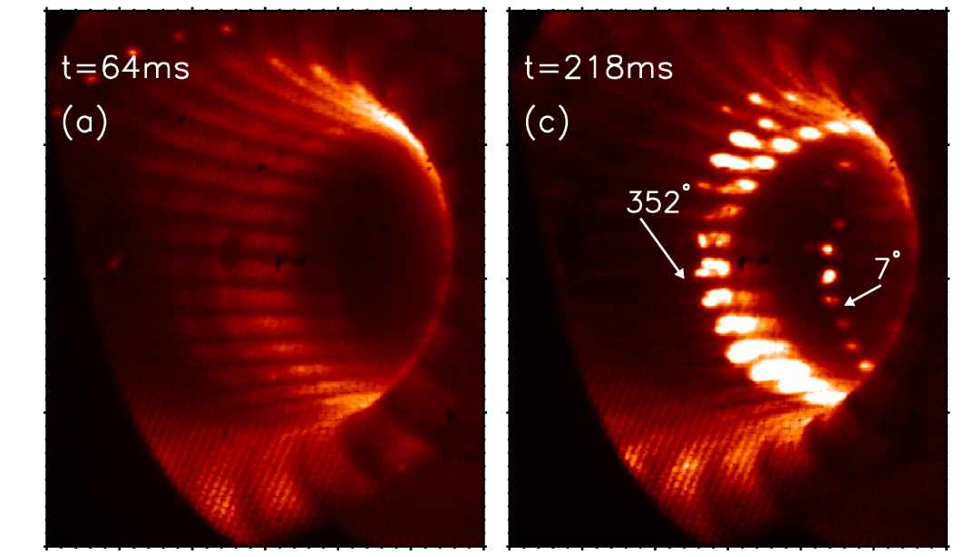 Reduction of plasma-wall interaction in the QSH helical state in the RFX-mod reversed-field pinch. Image of CIII emission.